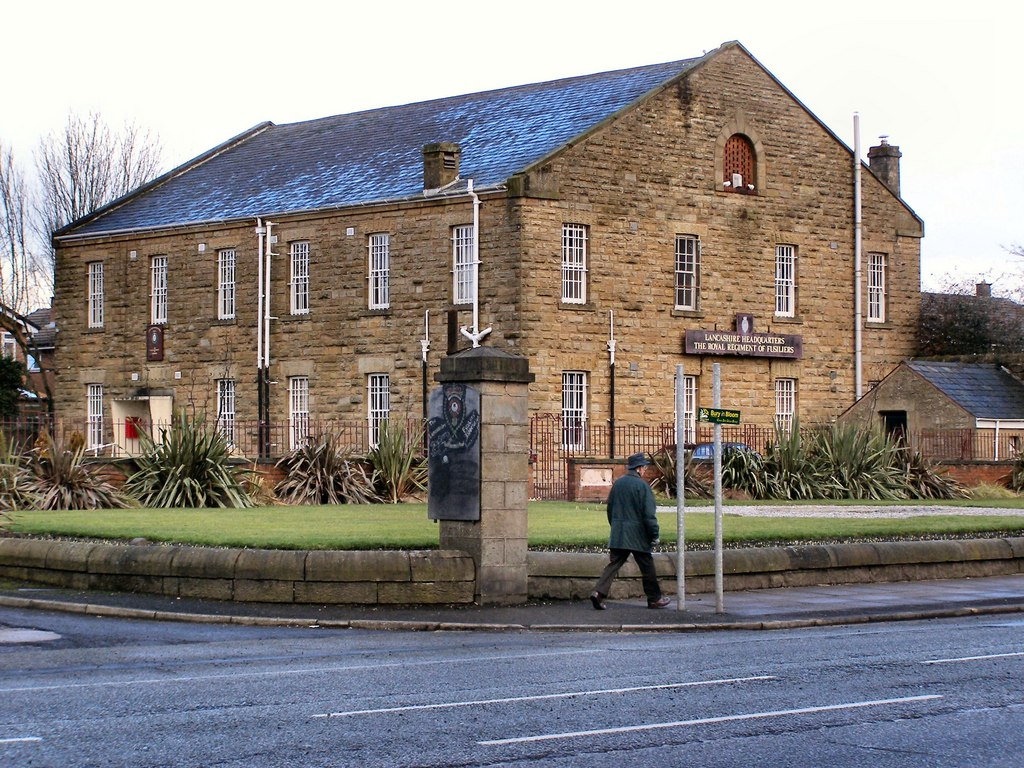 Fusiliers Headquarters All that remains of the former Wellington Barracks after they were demolished in the late 1960s to make way for a new housing estate. The pillar is from the original barracks wall. Bury